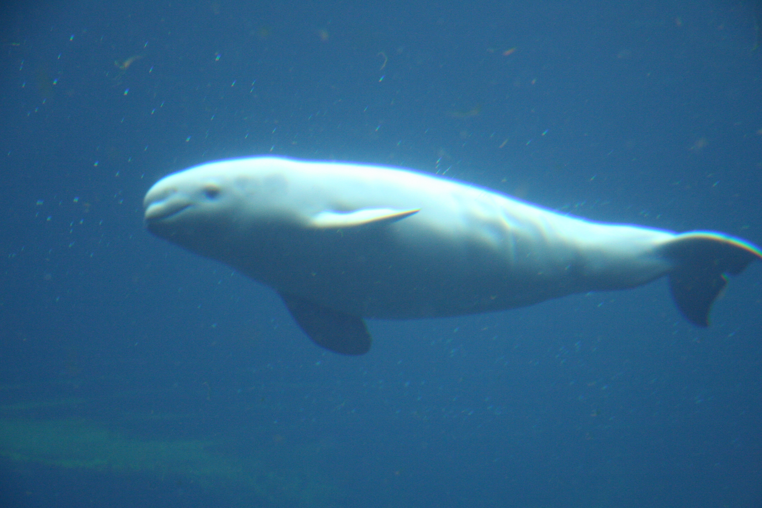 Beluga (Delphinapterus leucas) Vancouver Aquarium